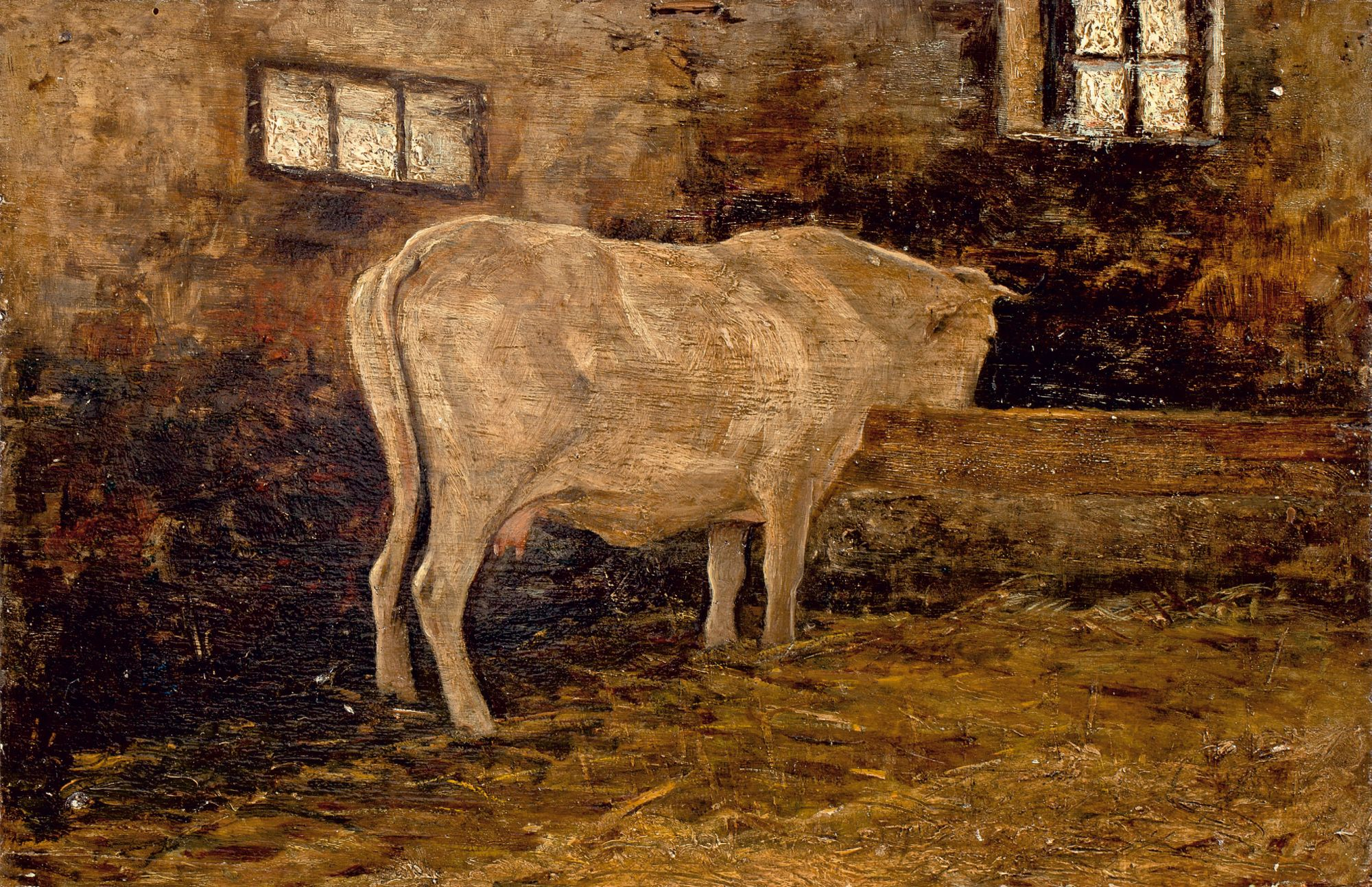 Cow in Stable